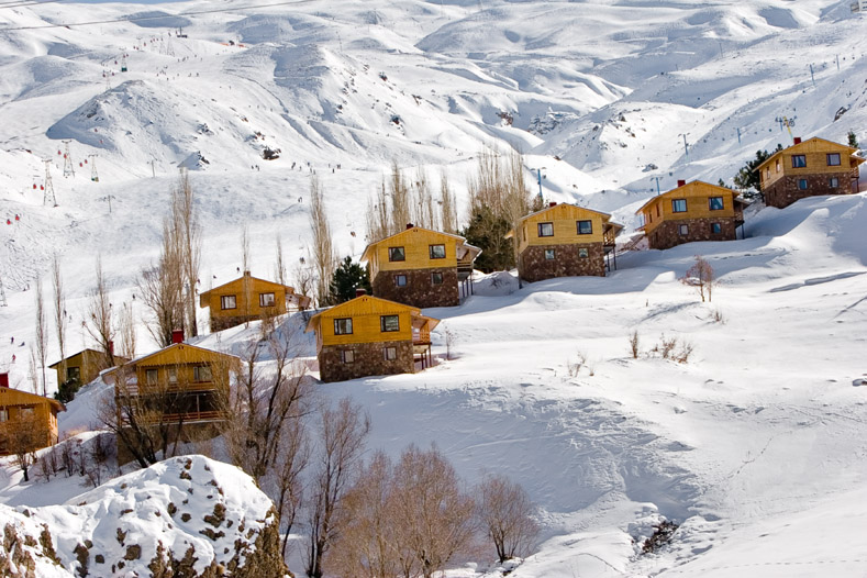 Dizin Ski Resort, Karaj - Chalous Road Canon EOS 20D ,Canon EF 70-200mm f/2.8L IS USM 1/500s f/8.0 at 70.0mm iso100 full exif